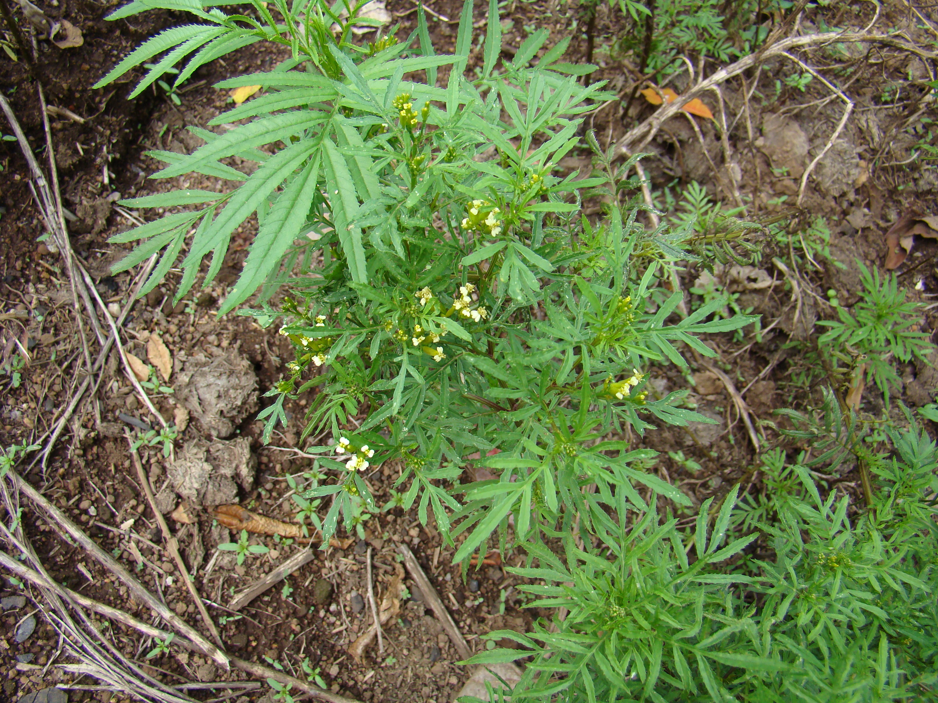 Tagetes minuta at the Uganda Wildlife Education Centre in Entebbe. A plant introduced from the Peruvian Andes into Africa